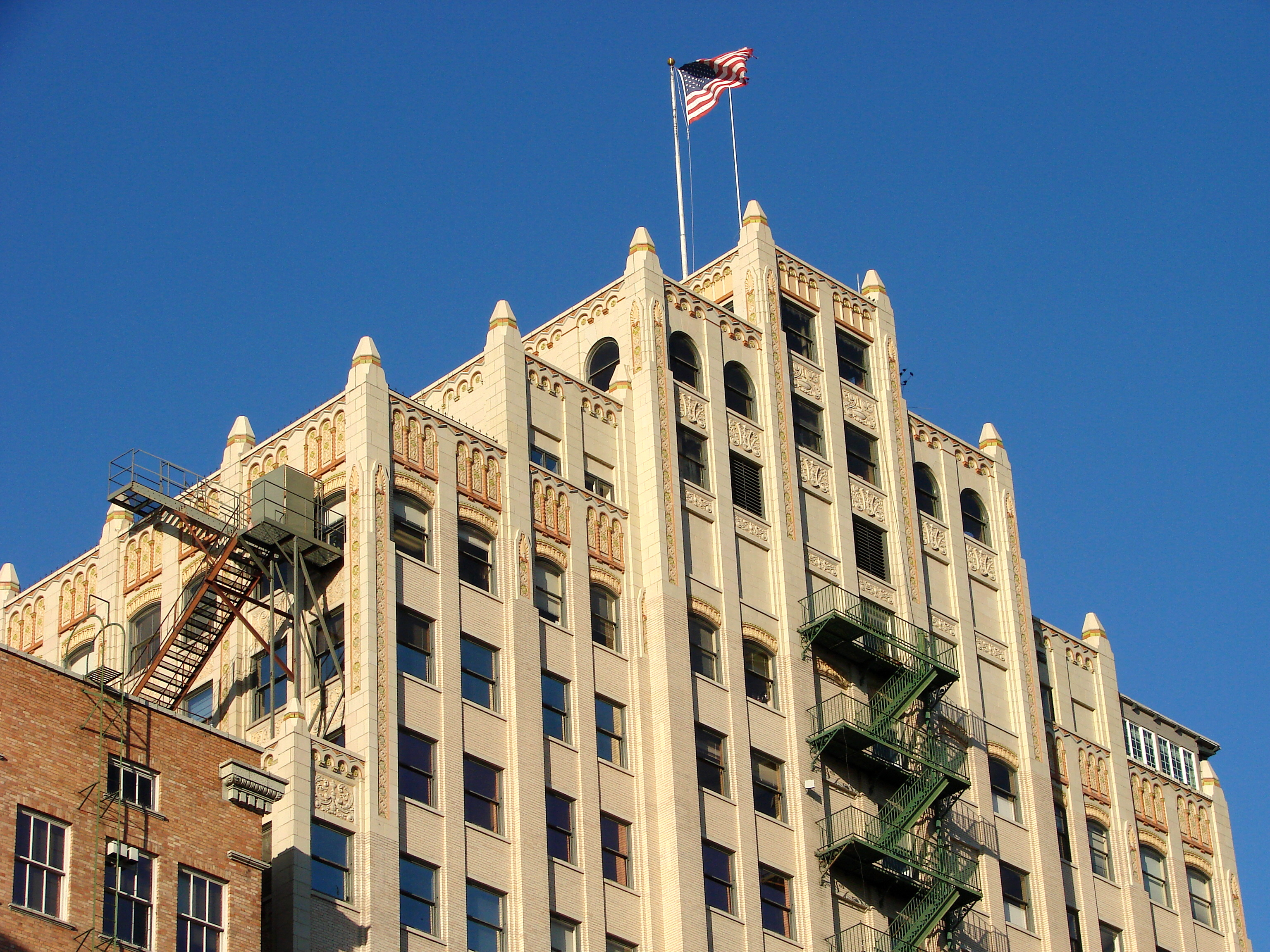 Historic Building Facade - Spokane WA - USA - 04